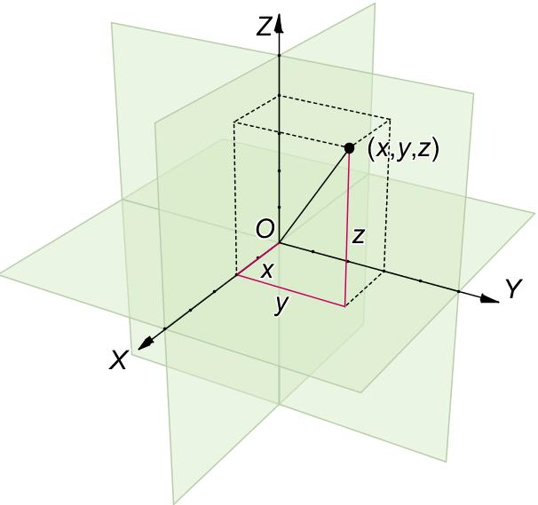 Coordinates and vector